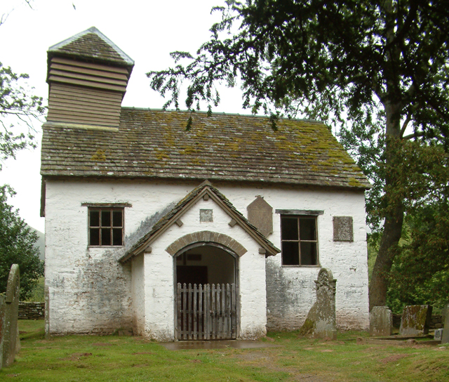 Capel y ffin. Church of St Mary, Capel y ffin (chapel on the boundary). Dates from 1762 with a porch added in 1817 on the site of an earlier church.